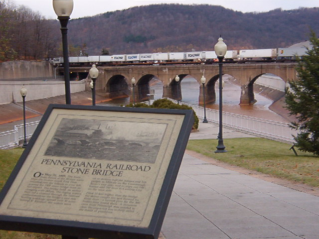 Point park and stone bridge in background